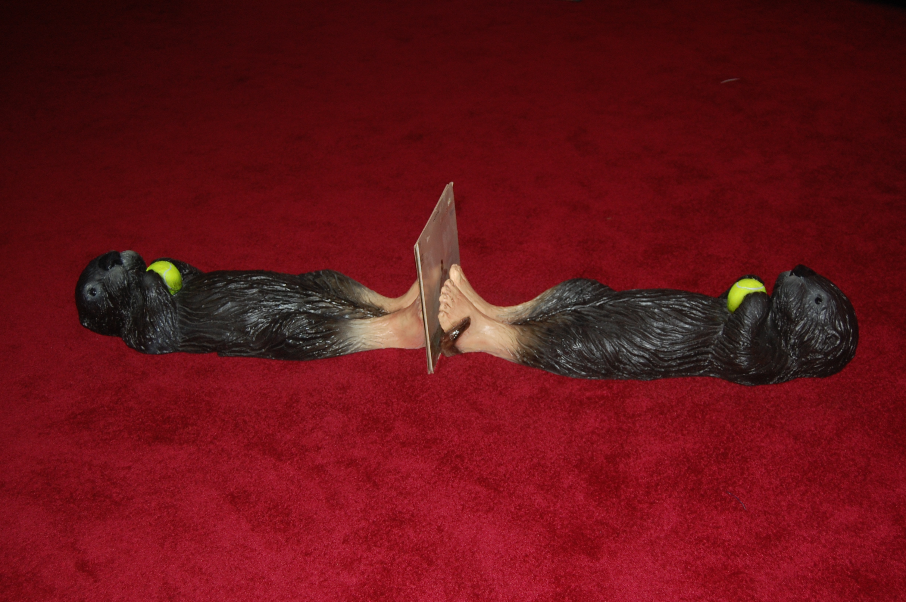 Object by Friedrich Kunath, exposition kunsthal Kade Amersfoort